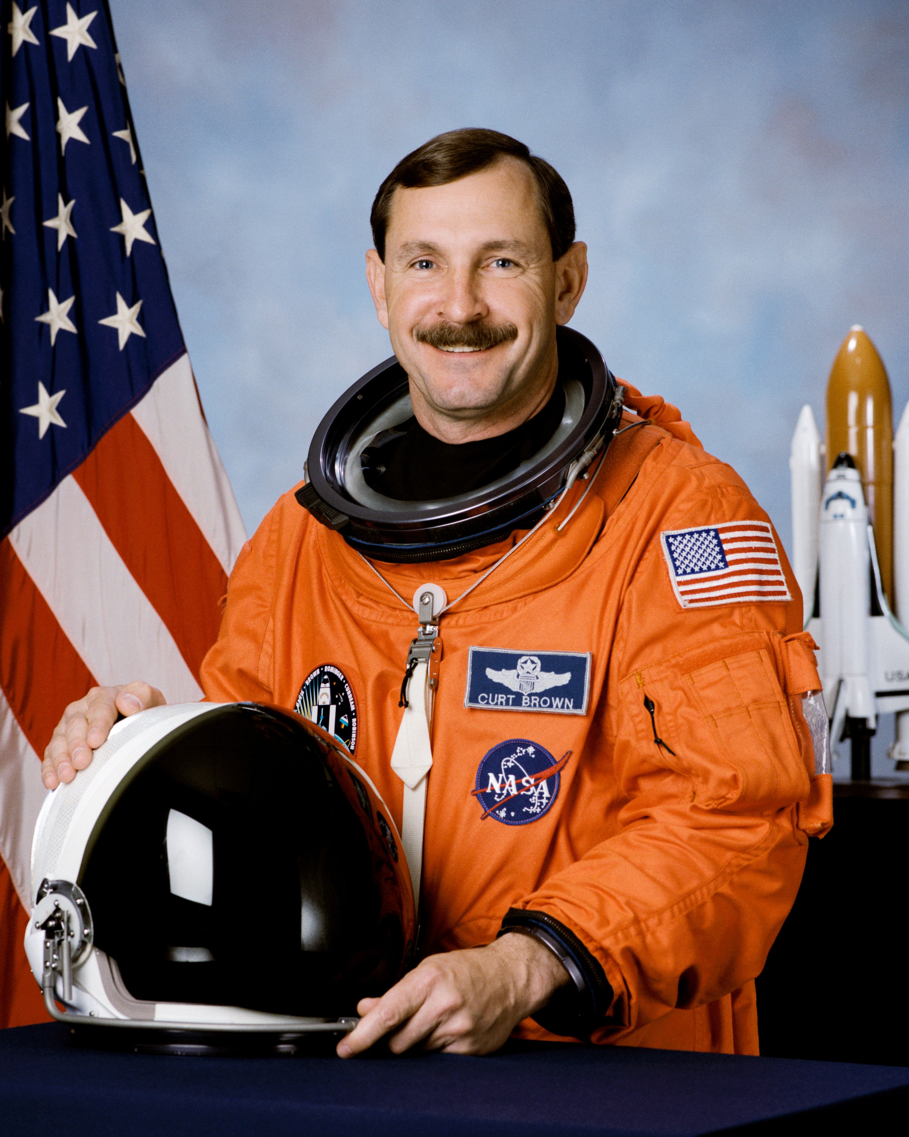 portrait astronaut curtis l. brown